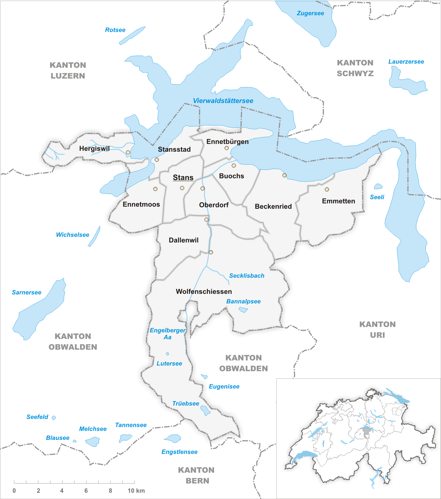 Municipalities in the canton of Nidwalden